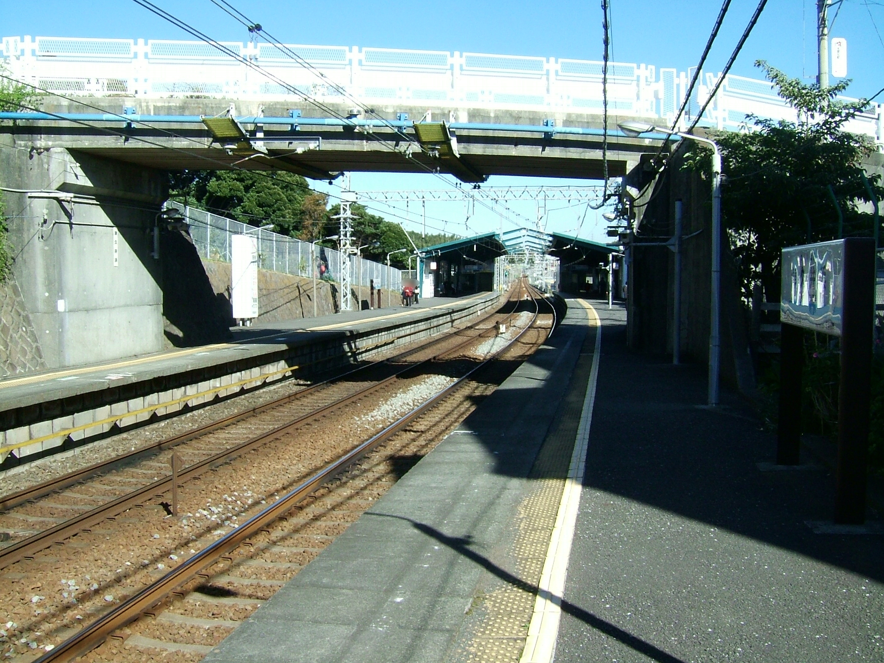 Tsukuihama Station platform (Keihin Electric Express Railway Kurihama Line)